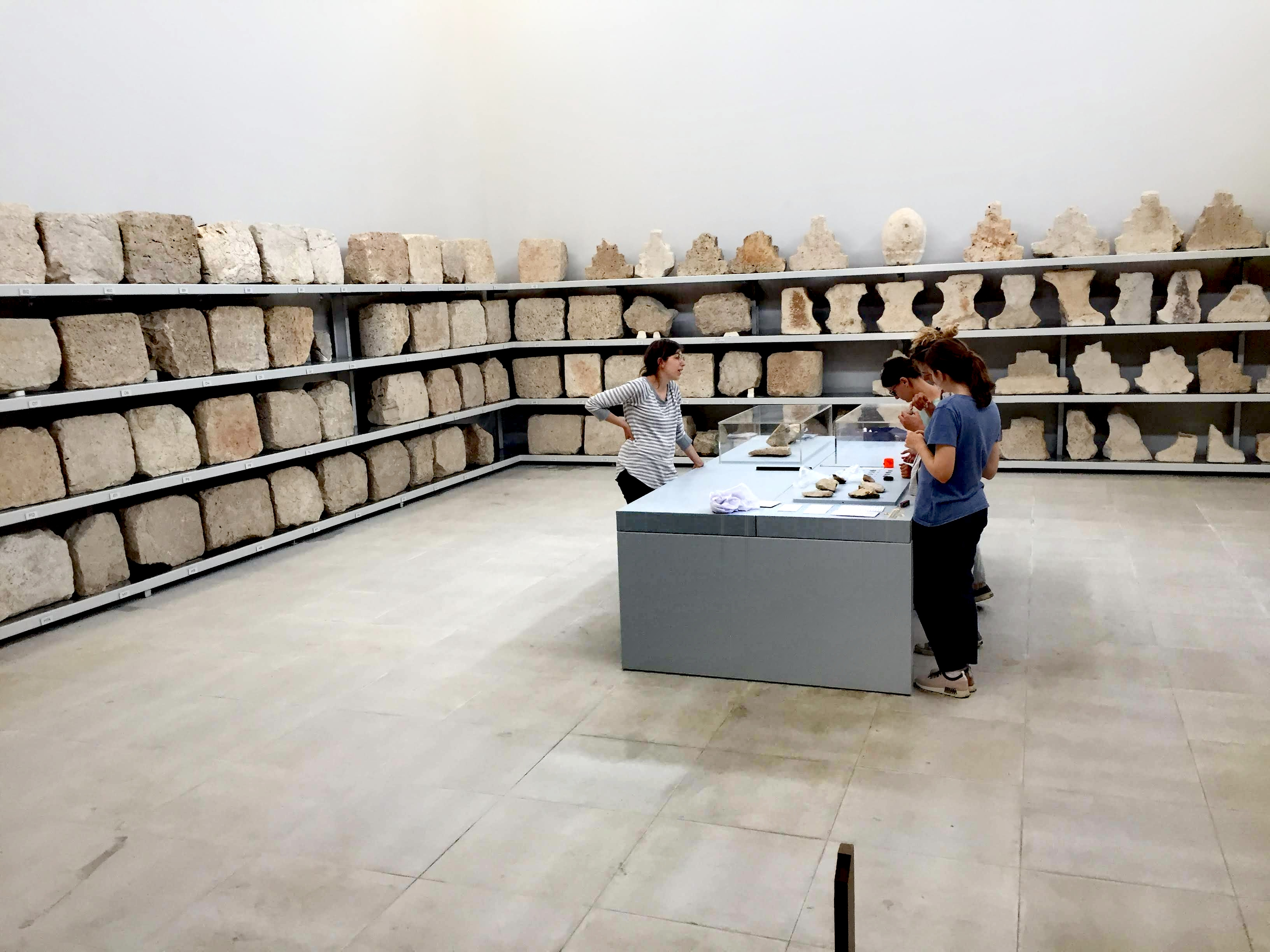 The Paikuli Gallery at the Sulaymaniyah Museum, final preparations before the official opening. An Italian team working on the Gallery appears in this image. The inscribed and non-inscribed stone blocks of the Paikuli Tower are on display for the very first time. The Gallery was opened on June 10, 2019.